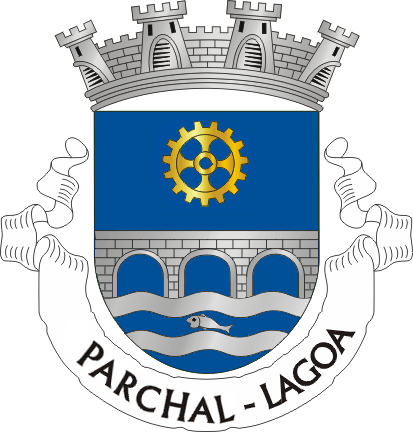 Crest of Parchal parish, Lagoa municipality (Portugal)